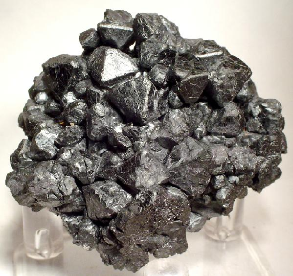 Franklinite Locality: Sterling Mine, Sterling Hill, Ogdensburg, Franklin Mining District, Sussex County, New Jersey, USA (Locality at ) A showy and excellent cluster of lustrous, metallic, octohedral franklinite crystals to 1.2 cm from the famous Sterling Mine of New Jersey. Scattered damage is not very detracting from this fine Lewadny Collection piece acquired in 1991. 5.0 x 4.3 x 3.4 cm